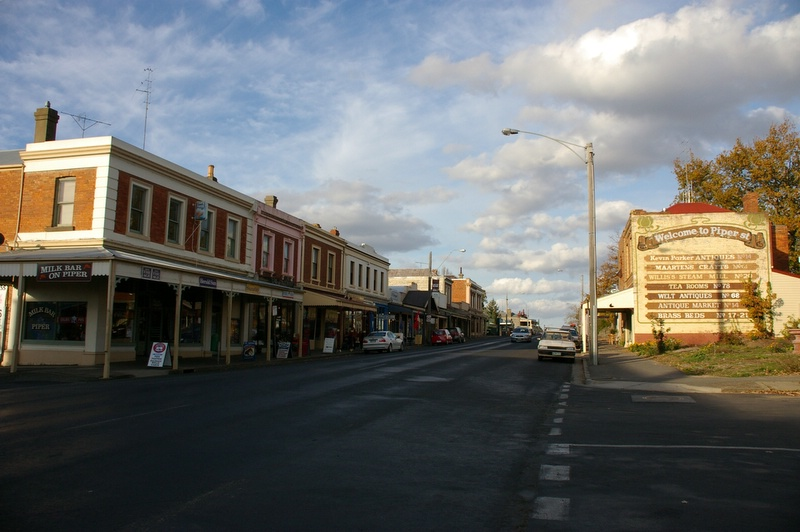 Looking along Piper St, Kyneton, Victoria, Australia. Photo taken on 26/5/2006 by Richard Hill.